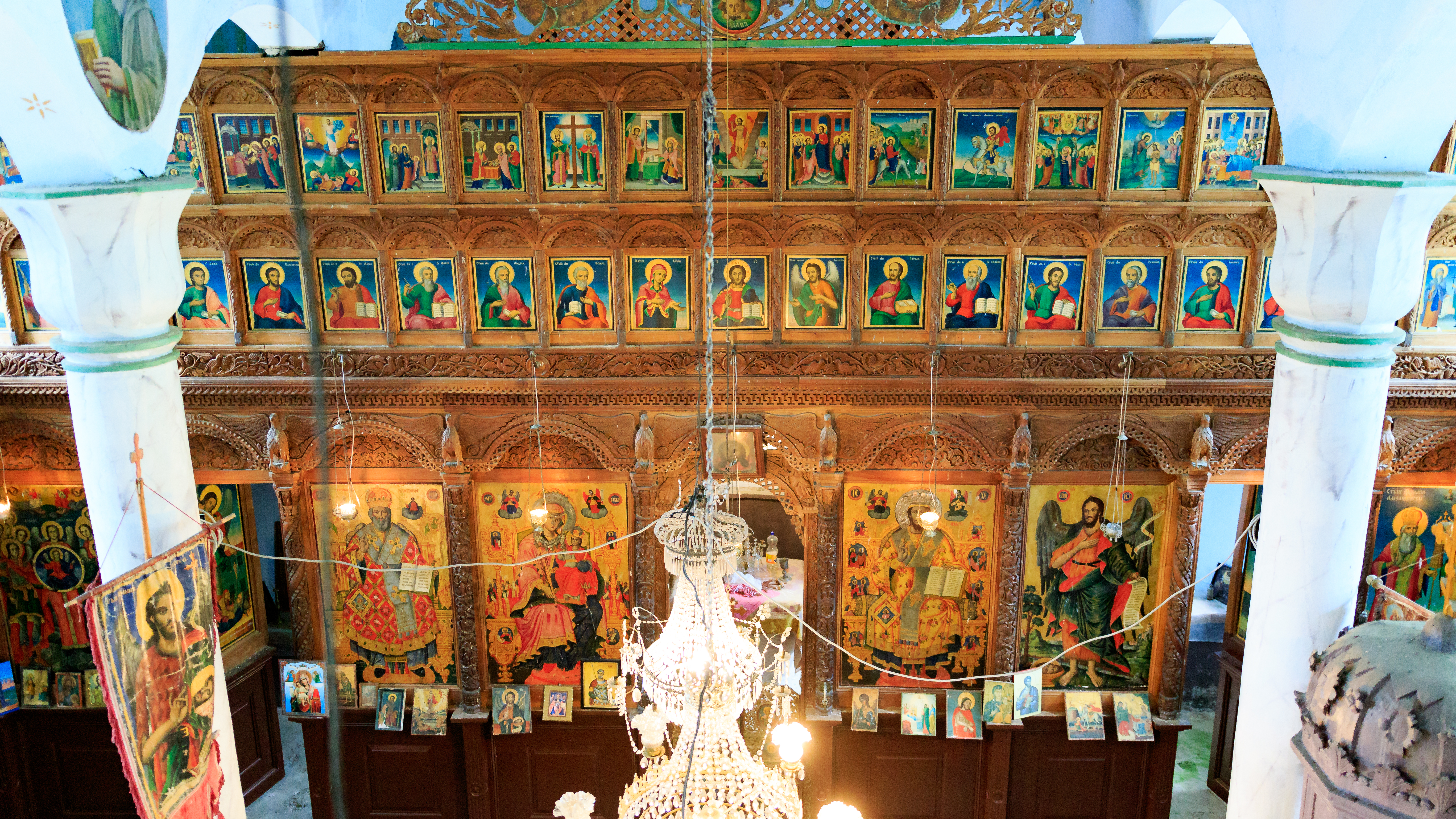 Interior of the church in the village Beličica.